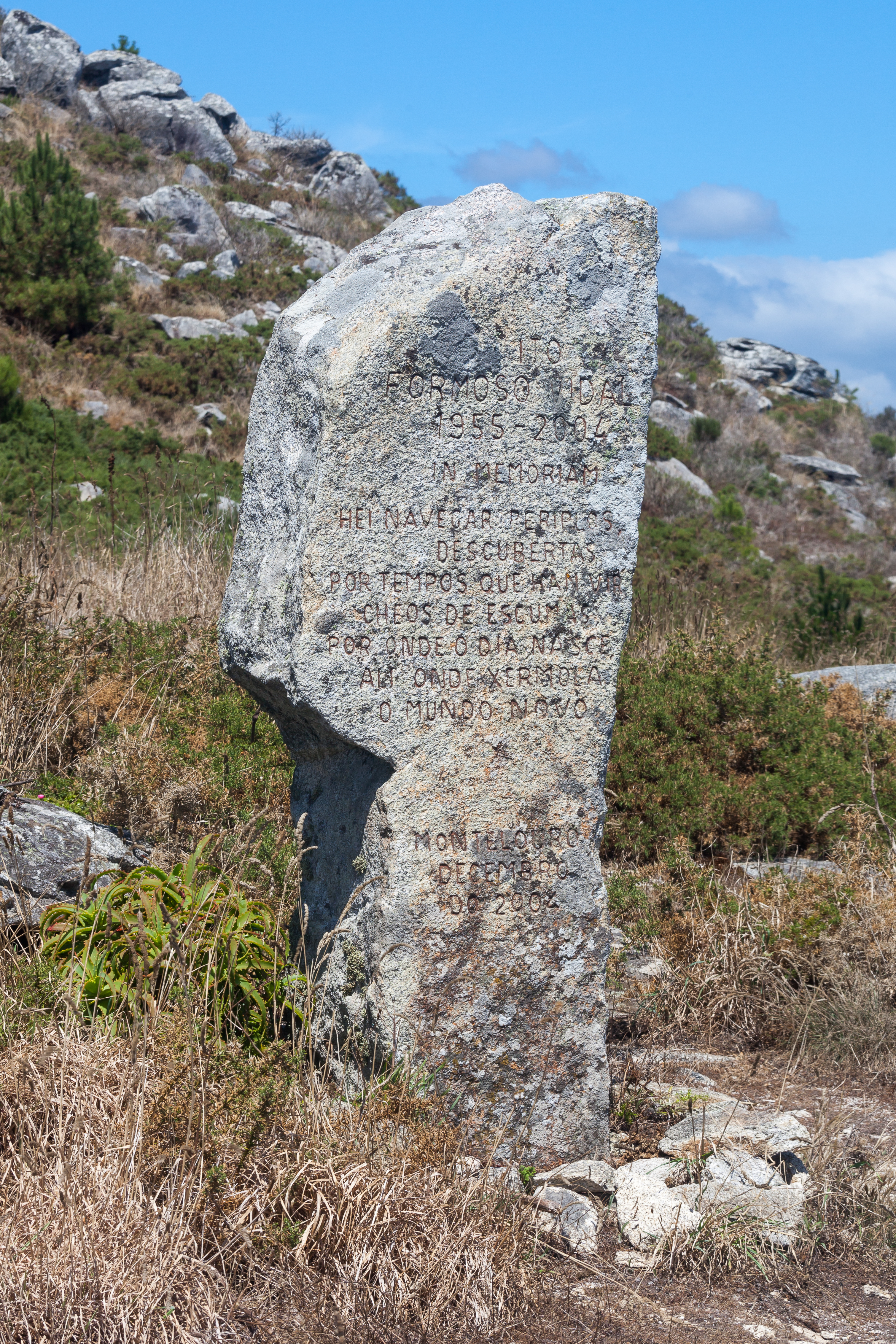 In memory of Celestino "Ito" Formoso Vidal. Monte Louro, Louro, Muros, Galicia (Spain).